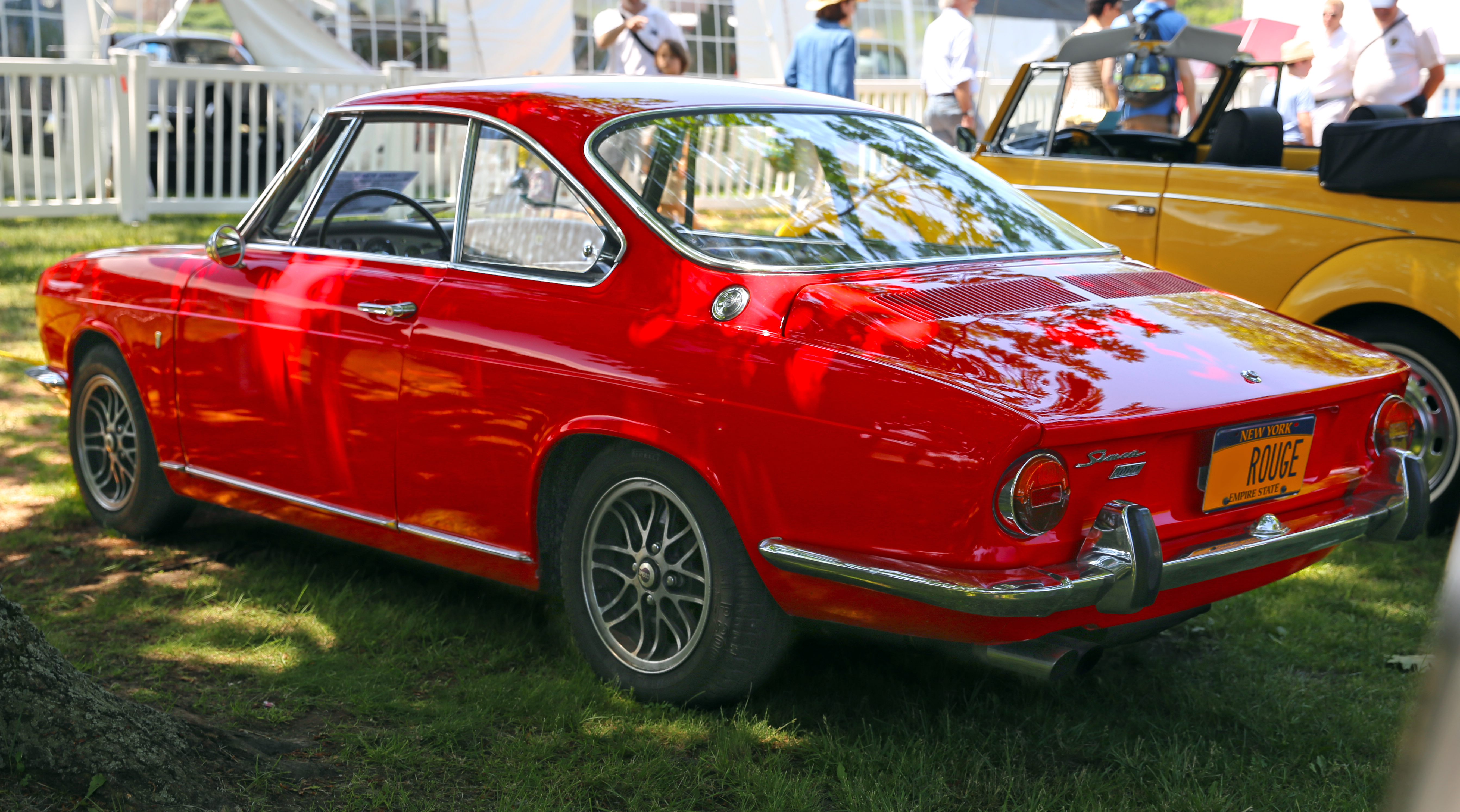 1966 Simca 1000 Coupé at the 2013 Greenwich Concours d'Elegance. About 10,500 of these Bertone-designed (Giugiaro held the pen, actually) little coupés were built between 1963 and 1967. It is thought that only about 300 are still around across the globe.